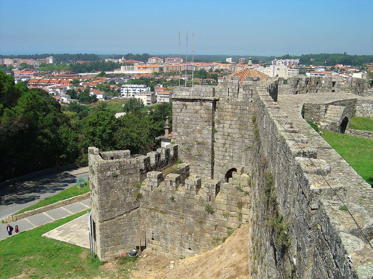 See where this picture was taken. [?]